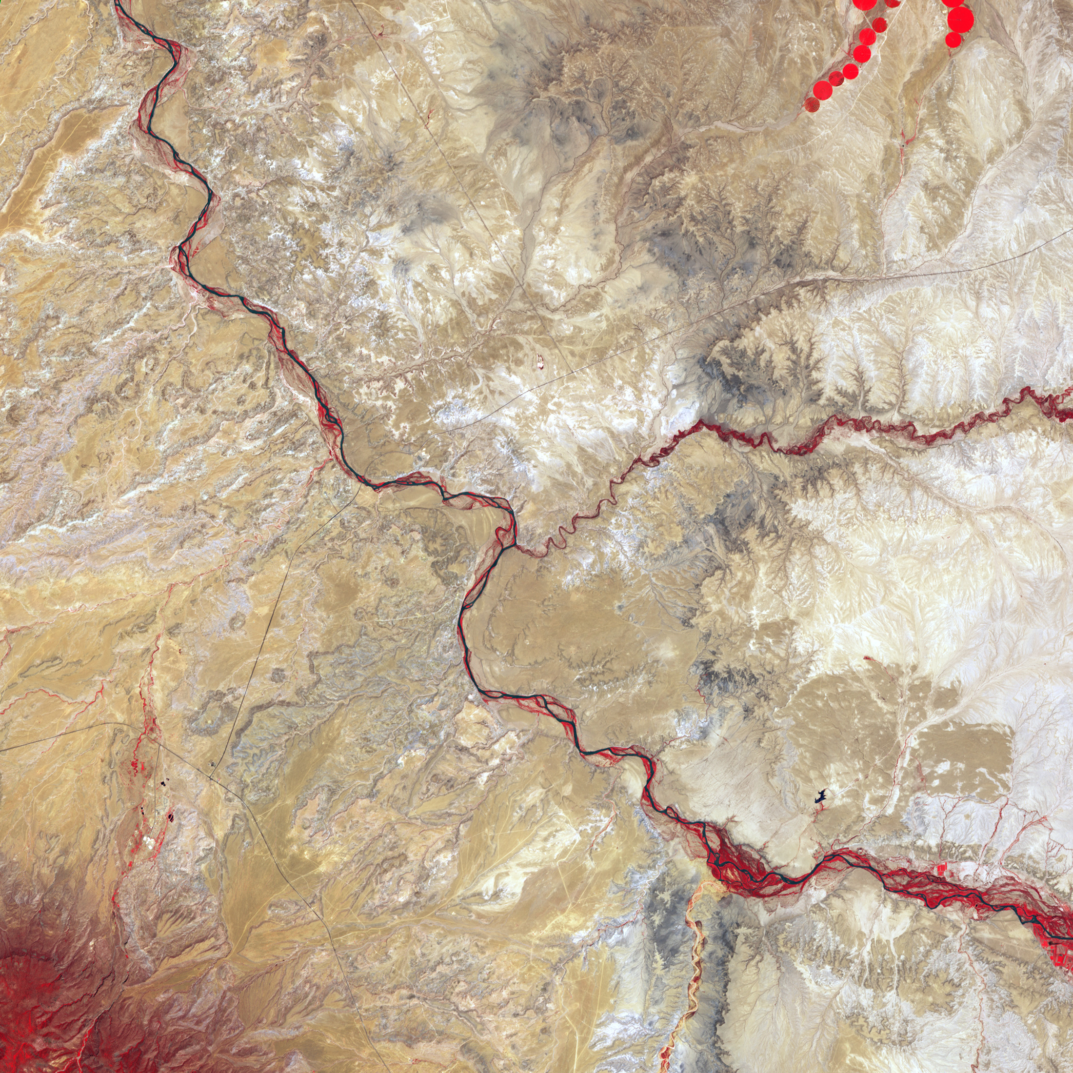 Satellite image of the Four Corners. Vegetation is red, and sparsely vegetated or bare areas range from off-white to gray to tan. Water appears navy blue to nearly black. Vegetation (bright red) lines the braided river channels, but the rarity of red in this image attests to the general paucity of vegetation in the region, where shrubs dot plateaus and dry valleys.